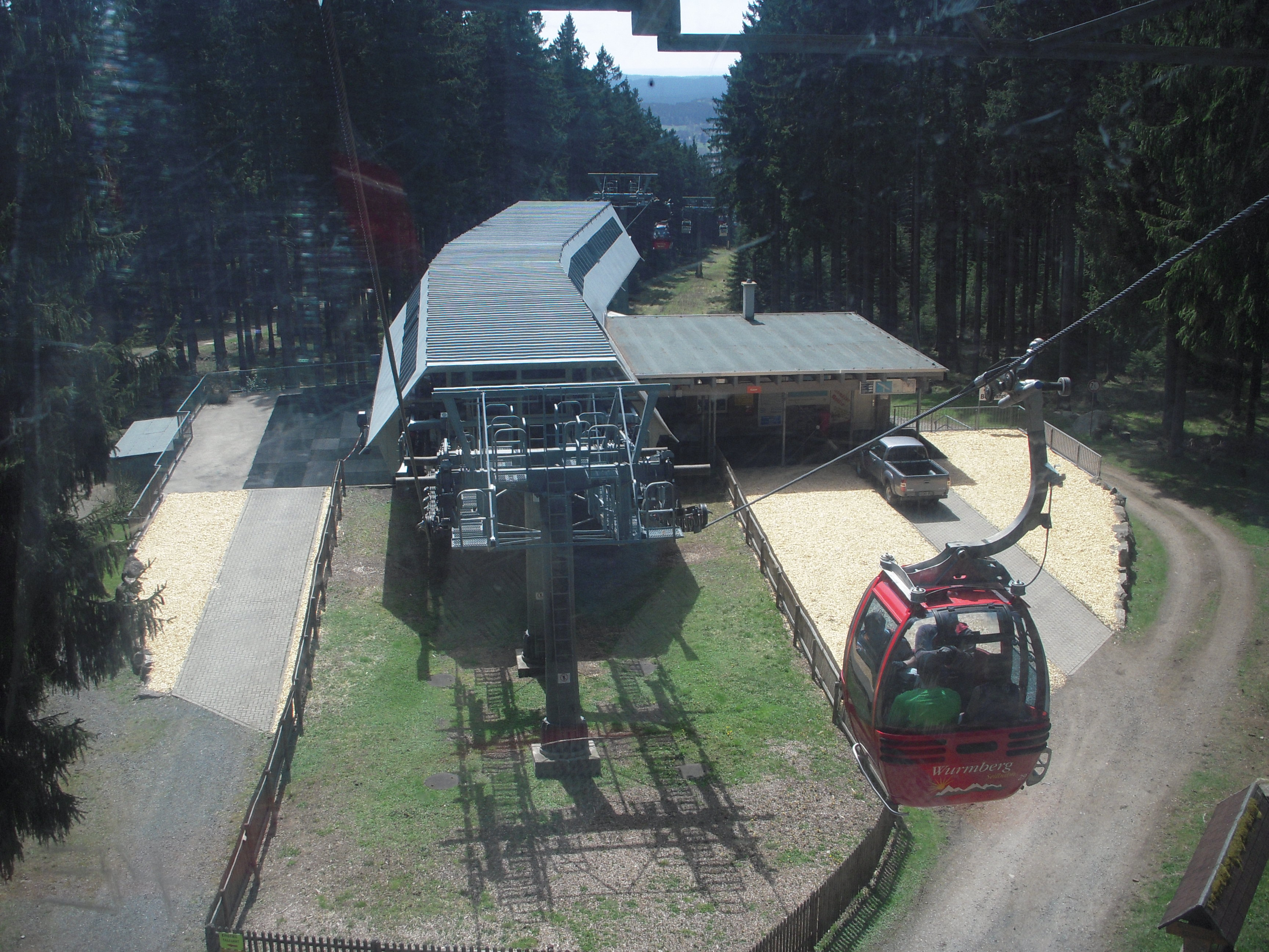 The middel station on the Wurmberg Seilbahn in Braunlage, Harz, Germany. April 28, 2012.